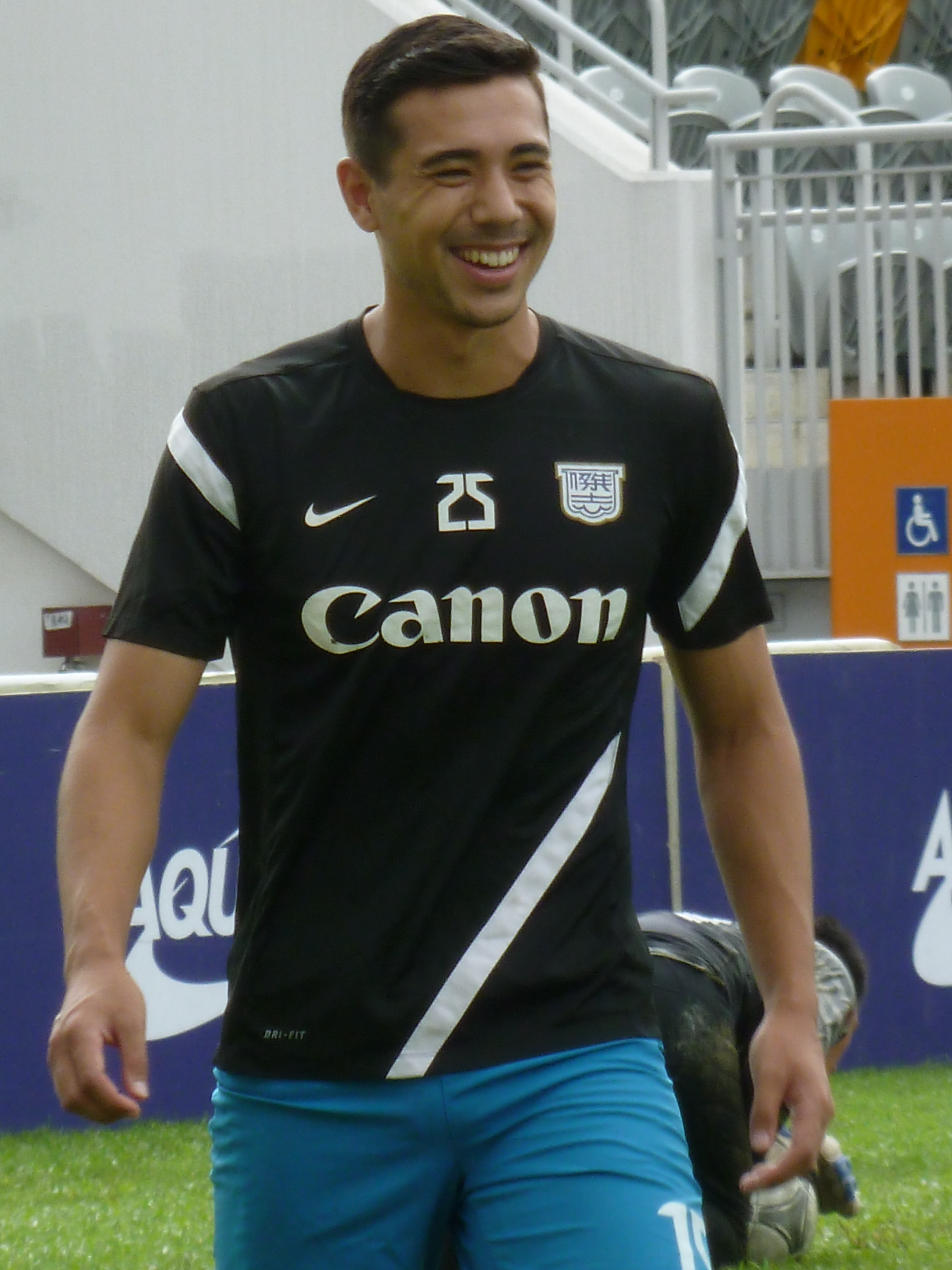 Matthew Lam (26 May 2013, AFC Cup Qualification Playoff, Kitchee vs Tuen Mun, Mongkok Stadium) 中文（香港）: 林柱機 (26 May 2013, 亞協杯資格附加賽, 傑志 vs 屯門, 旺角大球場)